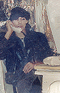 Jürgen Muschalek, also known as Muscha, during the shooting of the movie Decoder in Hamburg